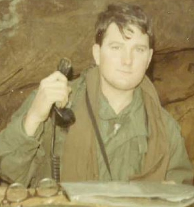 Convicted murderer Andrew Howard Brannan, during his time as a U.S. Army officer in the Vietnam War in 1970.